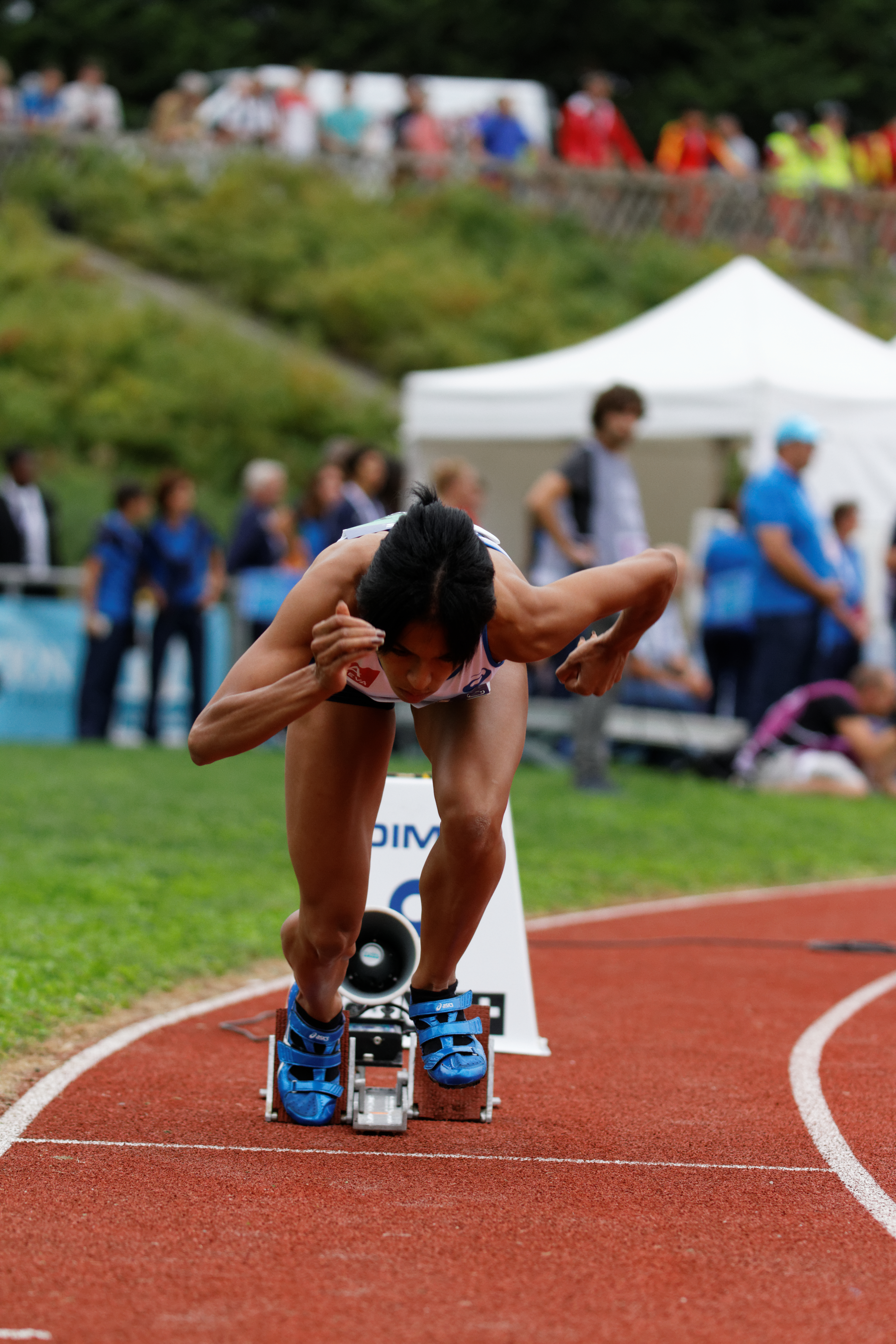 DécaNation 2014